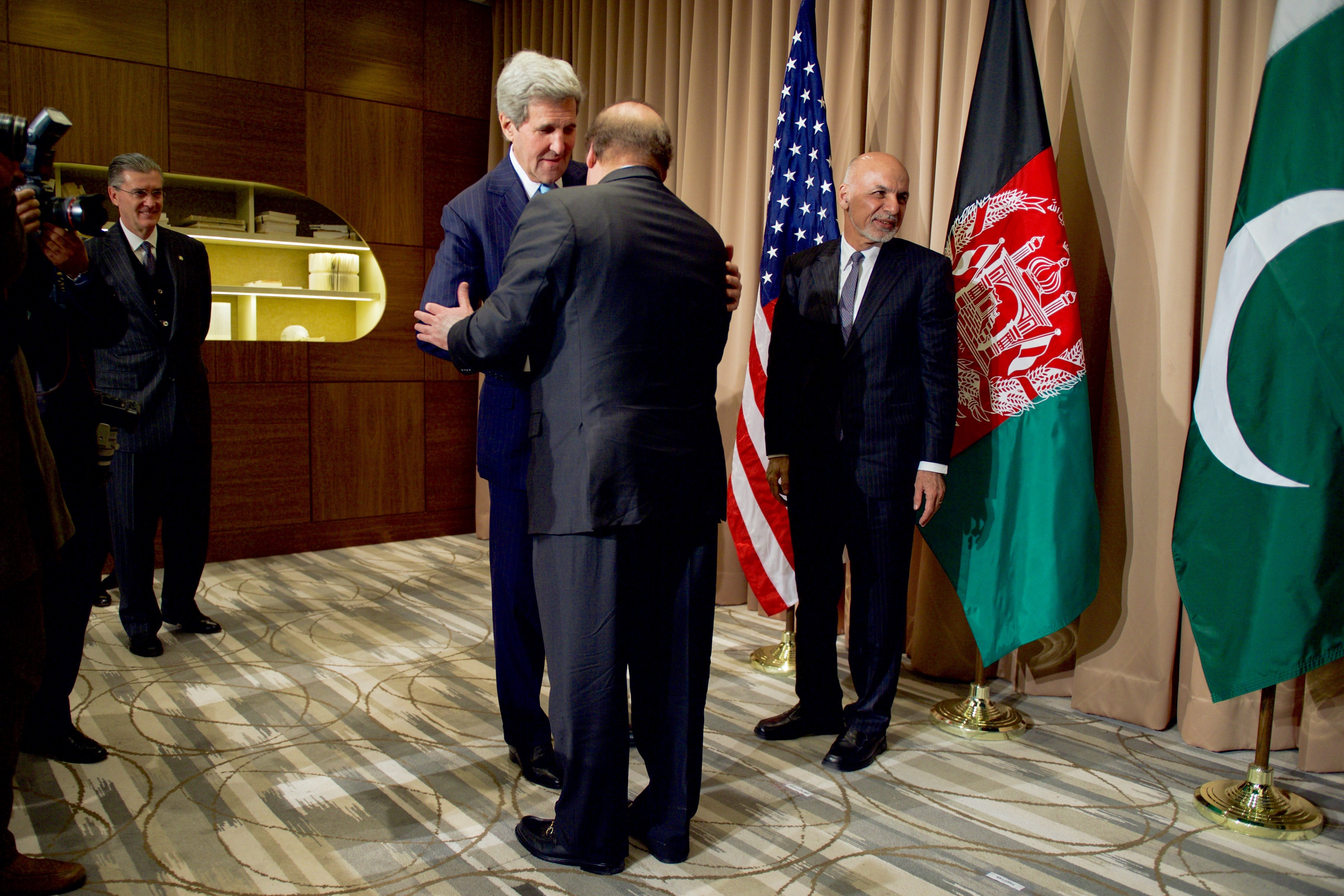 U.S. Secretary of State John Kerry shakes hands with Pakistan Prime Minister Nawaz Sharif on January 21, 2016, at the Intercontinental Hotel in Davos, Switzerland, before they both attended a trilateral meeting with Vice President Joe Biden and Afghanistan President Ashram Ghani on the sidelines of the World Economic Forum. [State Department Photo/Public Domain]